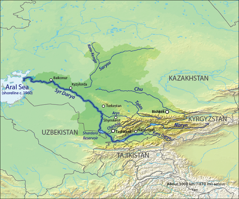 Map of the Syr Darya Basin watershed, of the Syr Darya and Chu Rivers — in Central Asia. It runs in Kazakhstan, Tajikistan, and Uzbekistan, and drains into the endorheic Aral Sea.